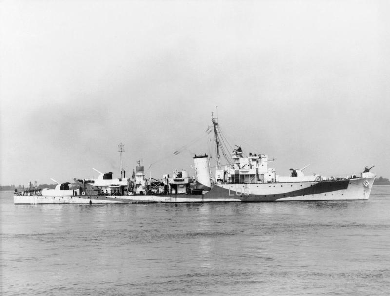 HMS AVONVALE, 19 May 1944. At a buoy on the east coast.